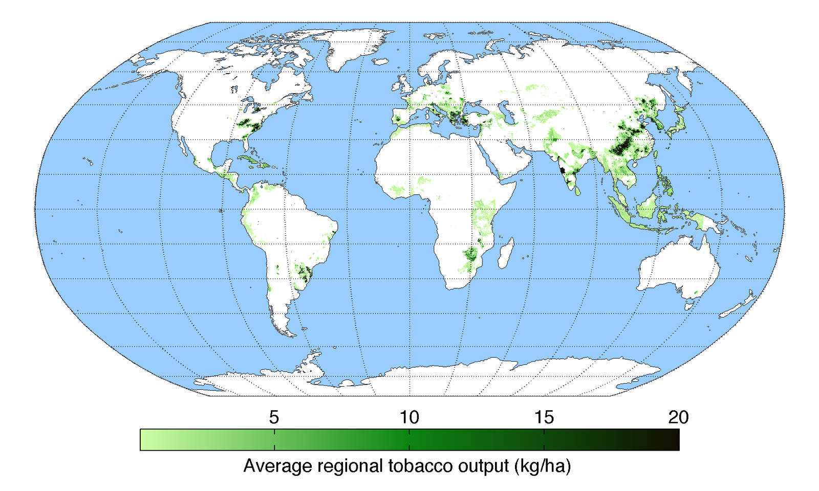 Map of tobacco production (average percentage of land used for its production times average yield in each grid cell) across the world compiled by the University of Minnesota Institute on the Environment with data from: Monfreda, C., N. Ramankutty, and J.A. Foley. 2008. Farming the planet: 2. Geographic distribution of crop areas, yields, physiological types, and net primary production in the year 2000. Global Biogeochemical Cycles 22: GB1022